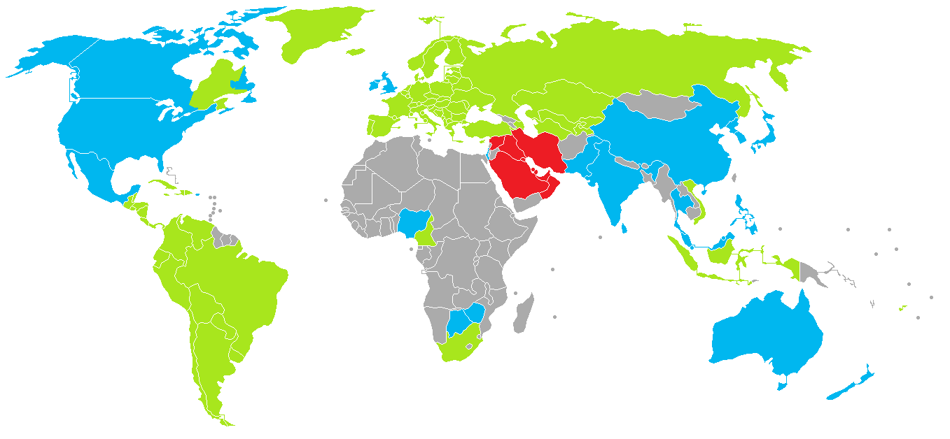 Decimal Separator Countries: dot comma Momayyez unknown